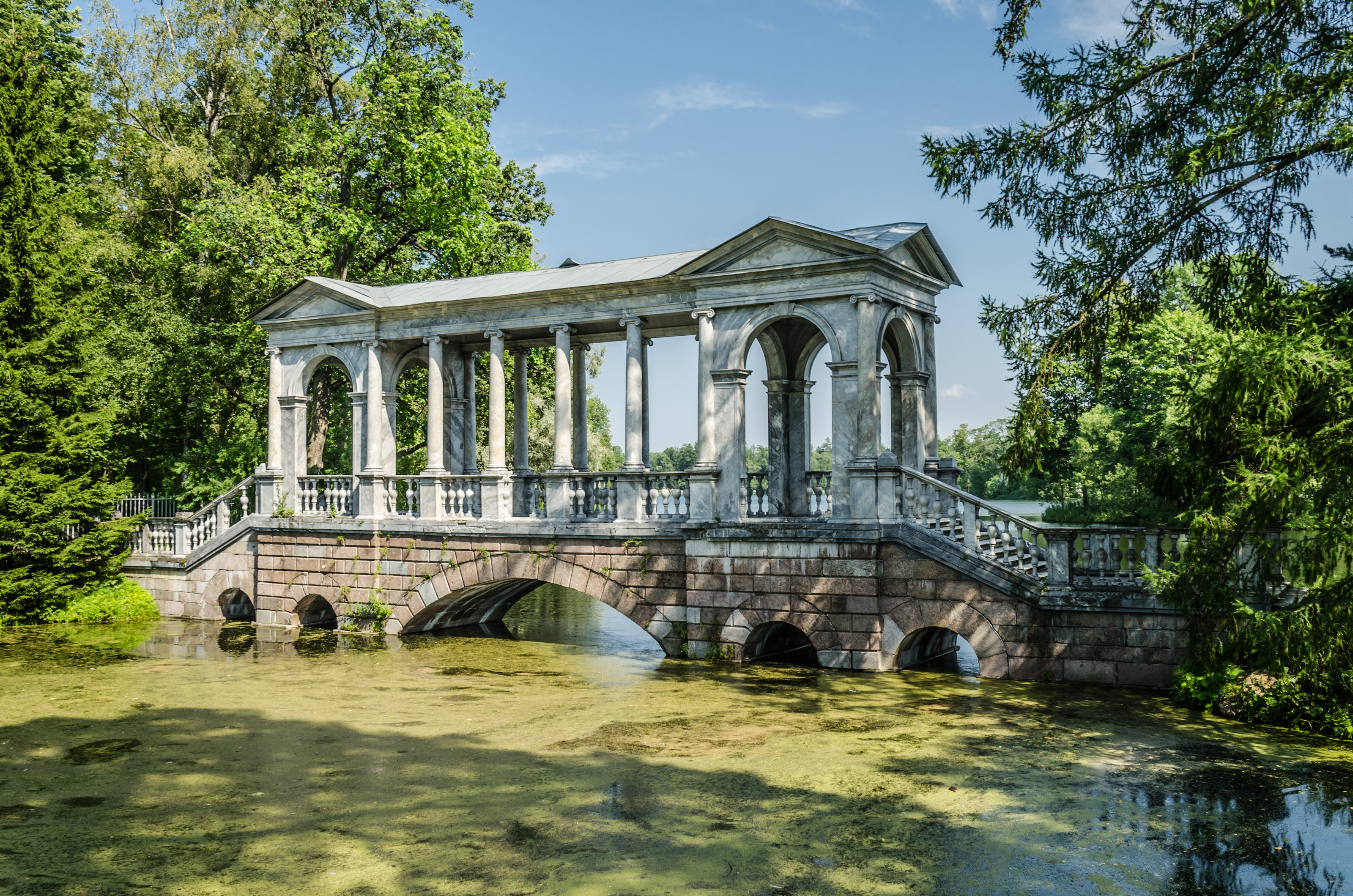 Marble bridge in Catherine park of Tsarskoe Selo, Saint Petersburg